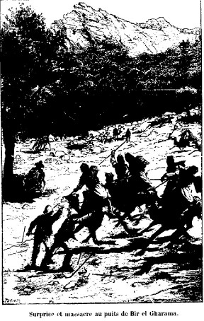 Ambush and massacre of the Flatter expedition at Bir el-Garama on 16 February 1881